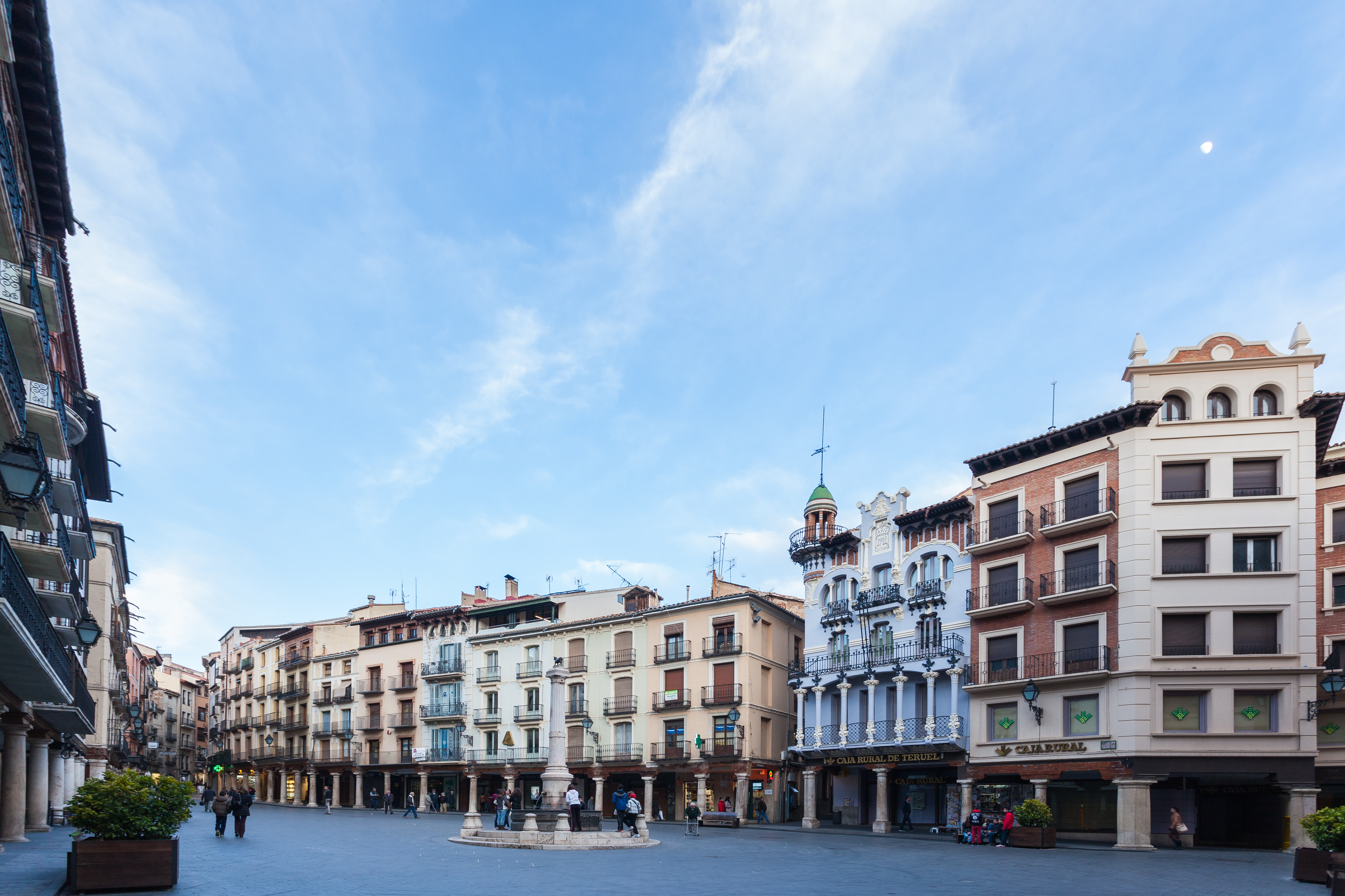 Torico square, Teruel, España